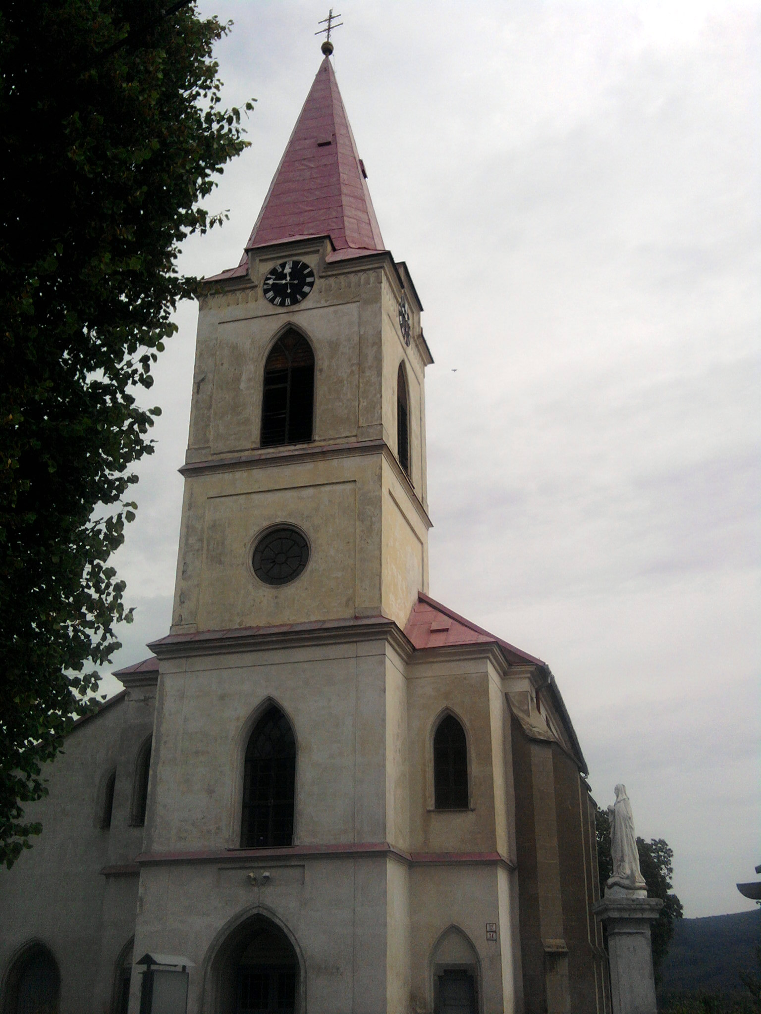 Cat. church in Pukanec